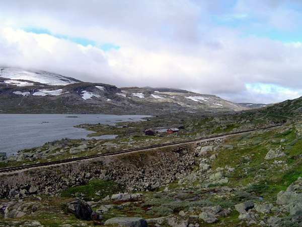 The Bergensbanen on the Hardangervidda near Finse